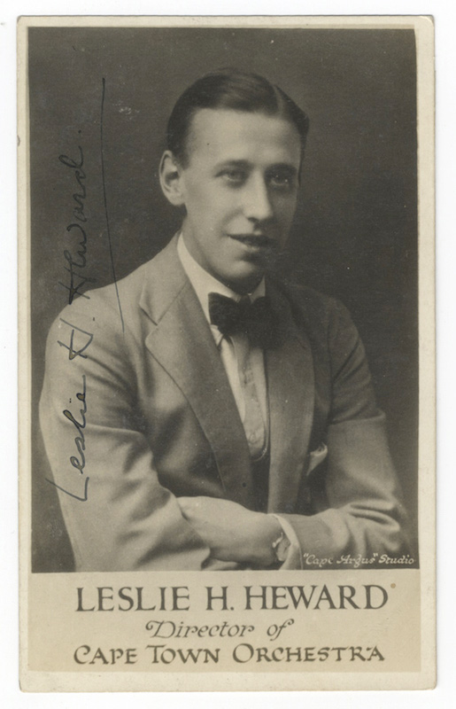 Signed Postcard of Leslie Heward taken and published while he was Director of the Cape Town Orchestra between 1924 and 1927. Photograph by Cape Argus Studio in Cape Town, South Africa.